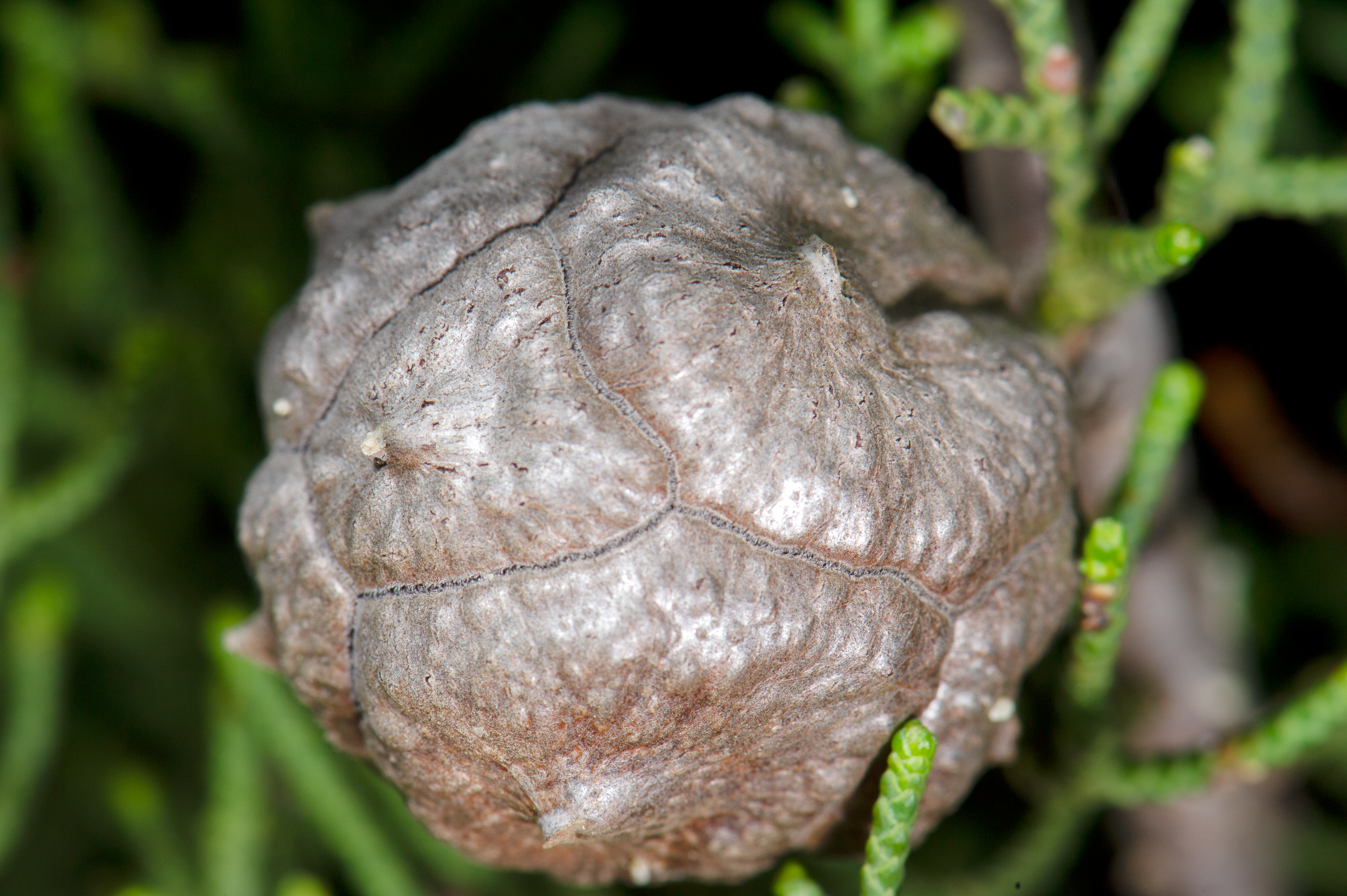 A seed pod from Cupressus forbesii, photographed near San Quentin, Baja California, Mexico.